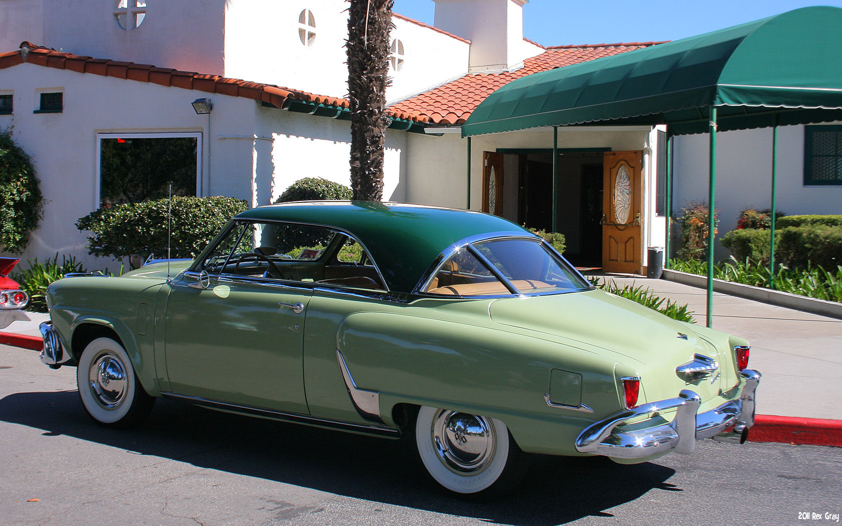 1952 Studebaker Commander Starliner Hardtop Coupe Lakewood, CA, Cadillac LaSalle Show, Feb 13, 2011